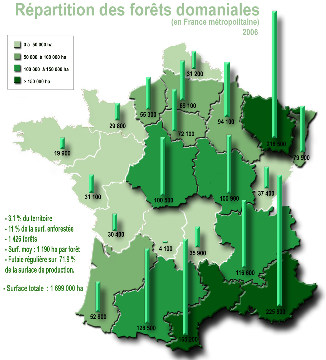 Map of regional distribution of french national forests (of the state, run by the ONF (National Office of Forests) in metropolitan France (excluding Corsica and Territories as Guyane and islands). Be careful not to confuse administrative regions and regions forest management by the ONF, which does are not the same. Here are administratives regions (same territories as Regional Concils). Be careful : this map don't show any private forests or forests of collectivitées run by the ONF.